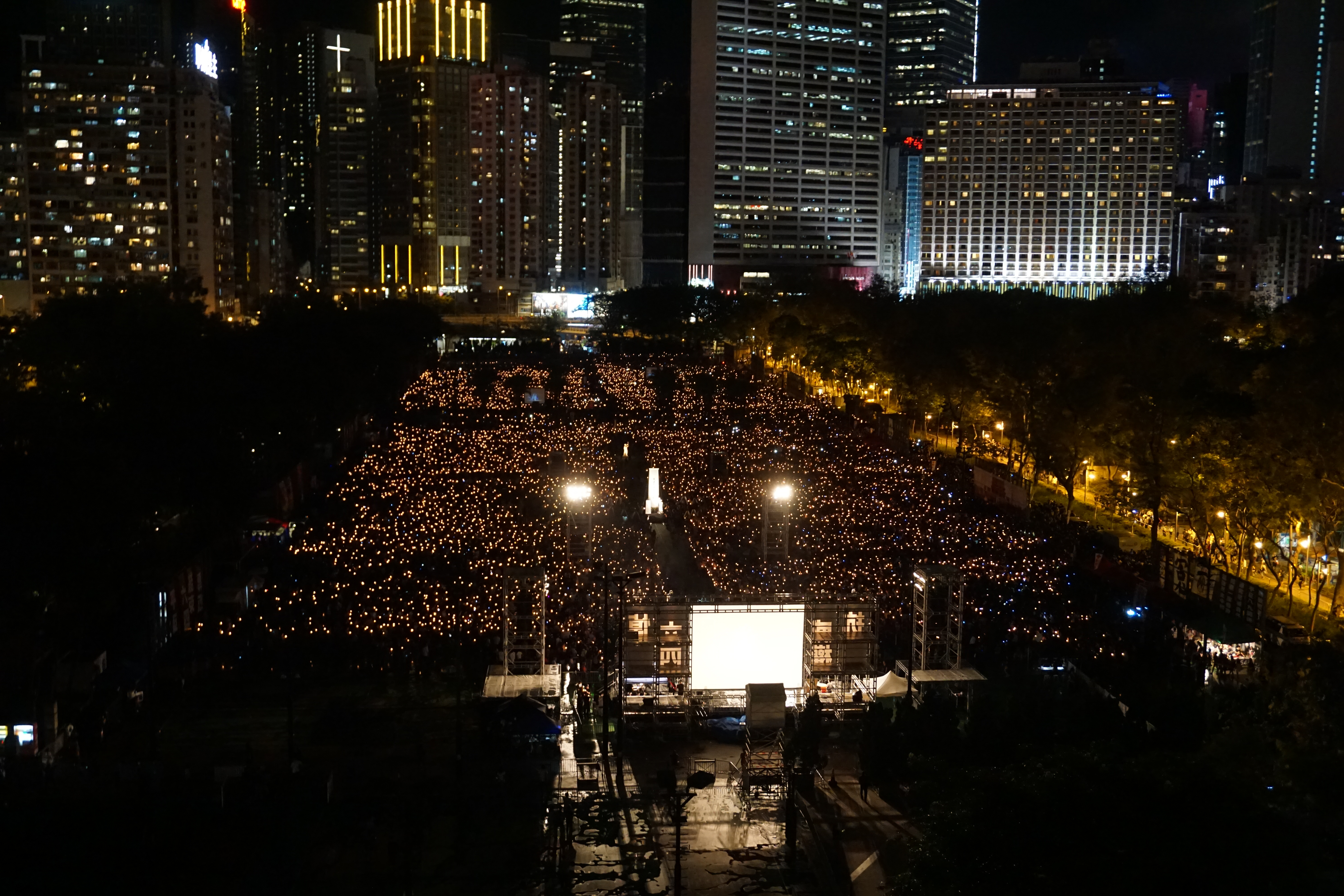 June 4th Vigil in Victoria Park, Hong Kong.